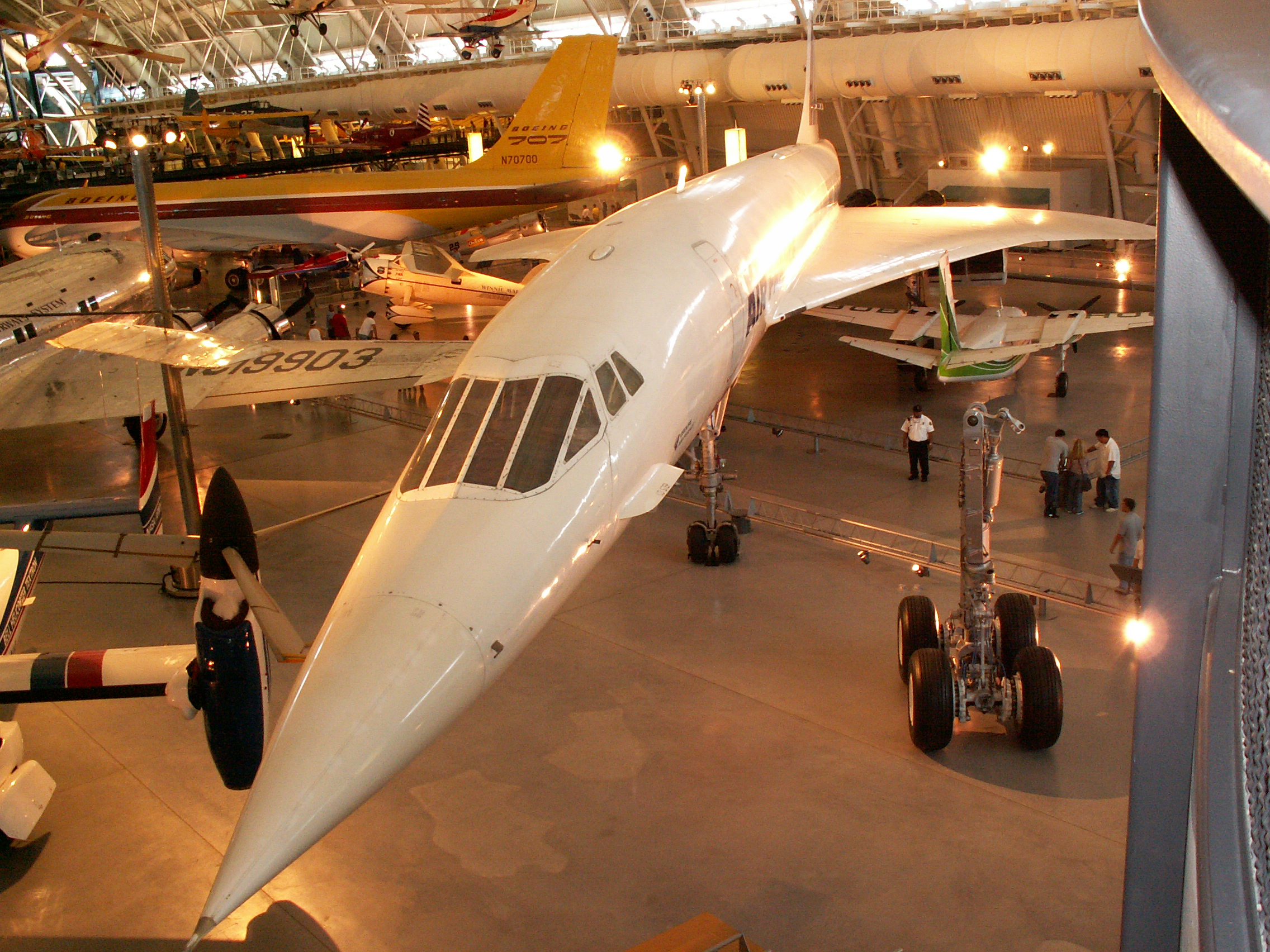 Concorde 205 F-BVFA on display, Steven F. Udvar-Hazy Center of the Smithsonian National Air and Space Museum, Chantilly, VA.